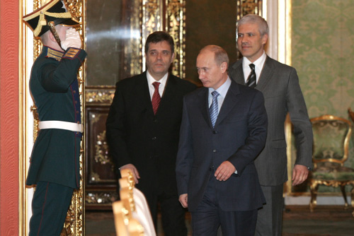 THE KREMLIN, MOSCOW. With Serbian President Boris Tadic (right) and Serbian Prime Minister Vojislav Kostunica (left).